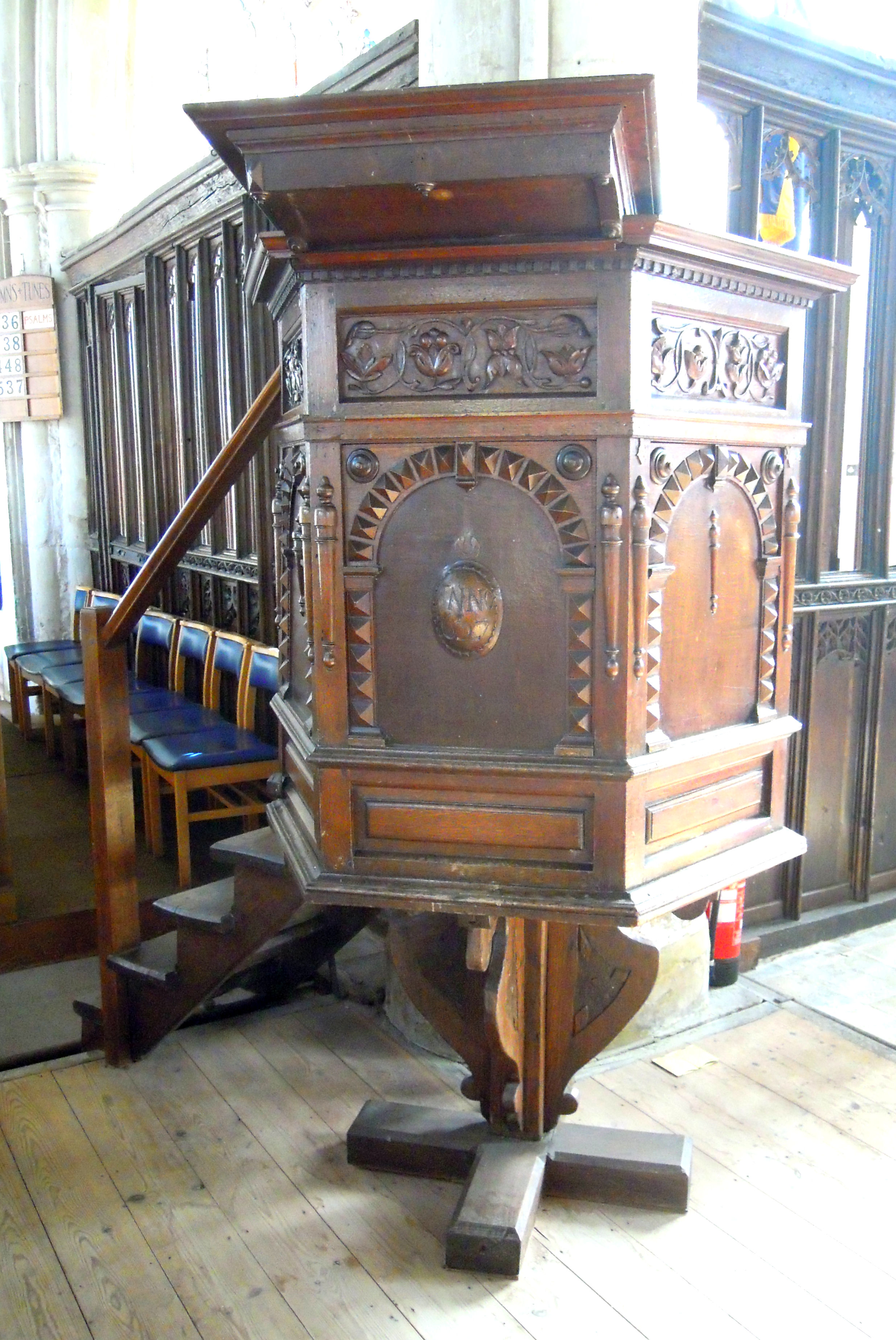 The pulpit in the Church of St Mary the Virgin, Ashwell